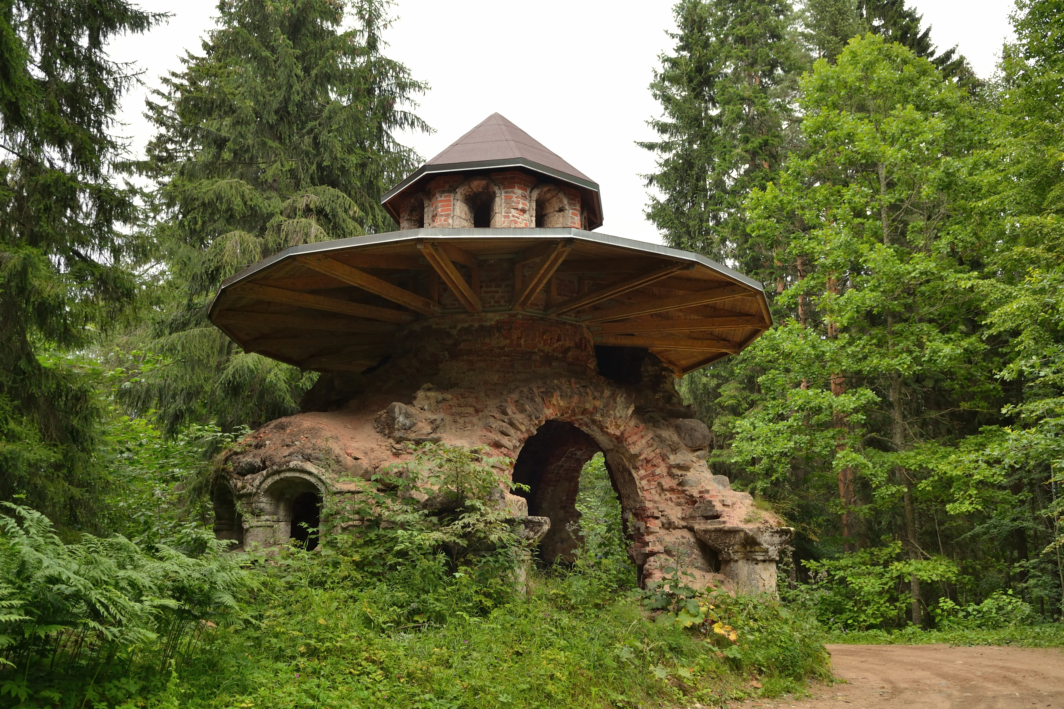 Väimela manor Matussaare chapel